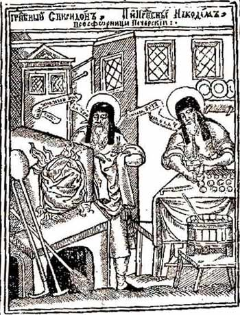 Saint Spyridon and Saint Nicodemus. Orthodox saints, makers of prosphora (small loaf of bread used in Orthodox Christian liturgies), monks at Kiev Caves monastery, where their relics are preserved at Nearer Caves. 12 century, Kyiv, Ukraine.